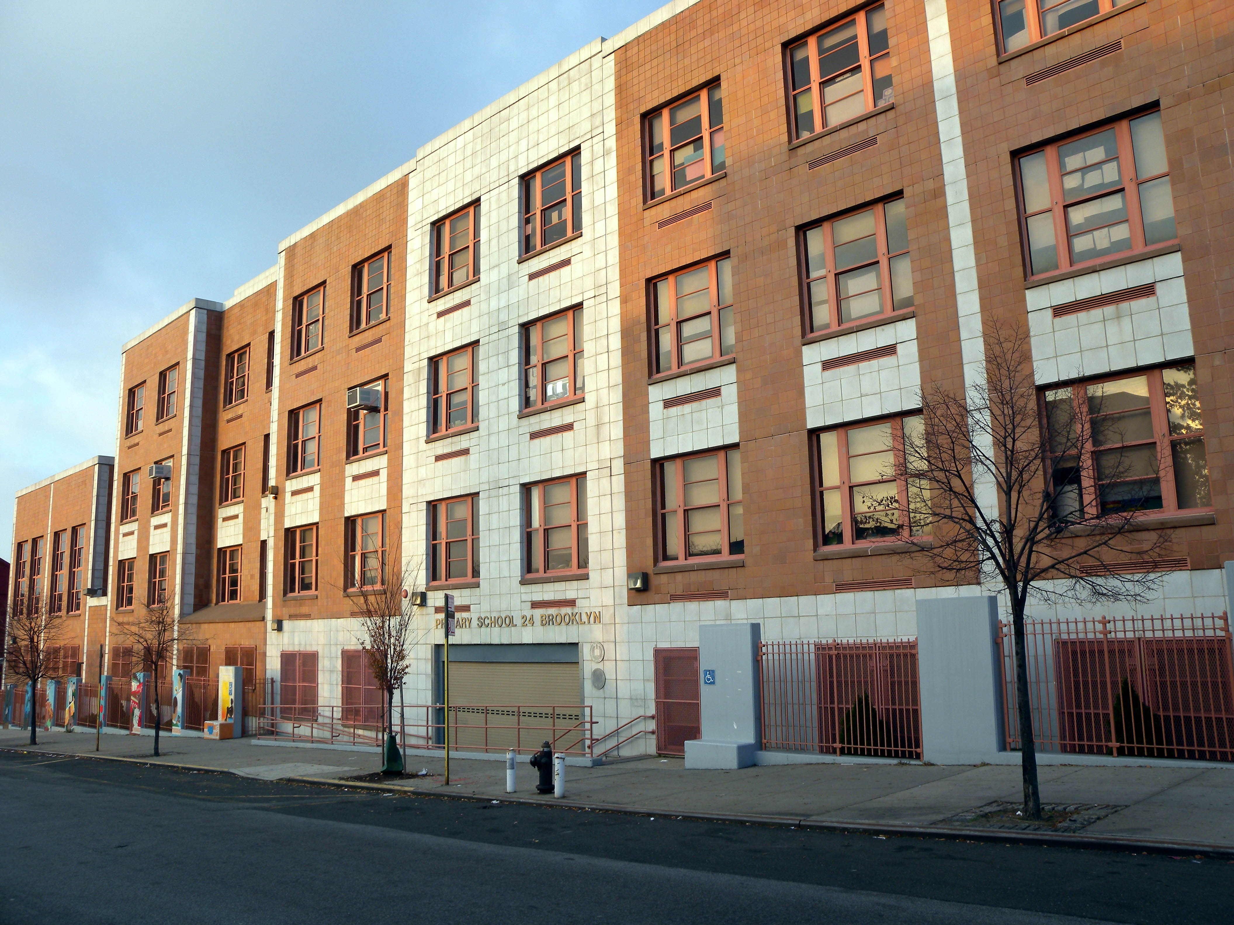 Looking north across 38th Street at PS 24, Brooklyn on a cloudy Thanksgiving afternoon.